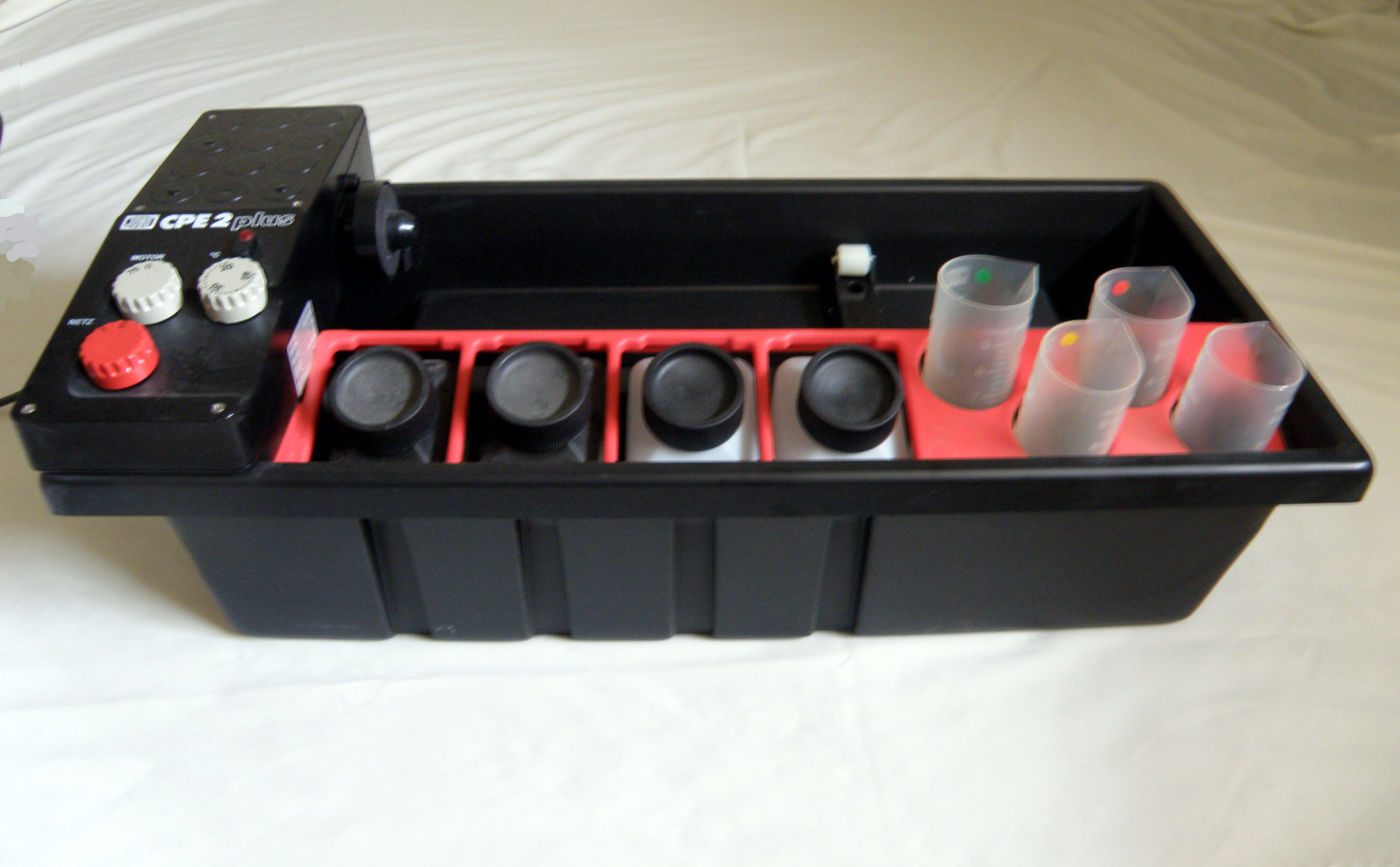 JOBO CPE2 Process system